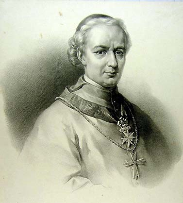 Luigi Lambruschini, Cardinal Secretary of State between 1836 and 1846